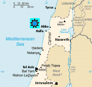 A map over northern Israel with important landmarks for the Bahá'í faith: 'Akká, Haifa and mount Carmel. A nine-pointed star in this area.